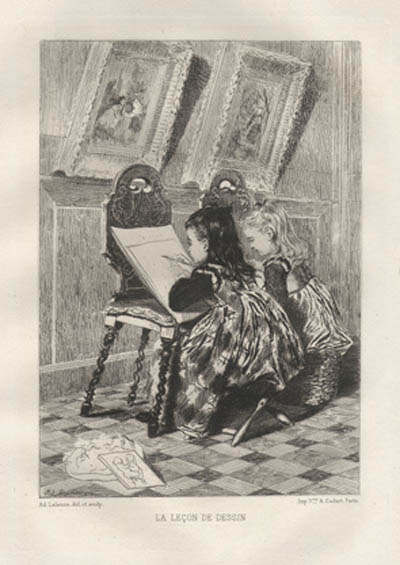 Adolphe Lalauze (1838–1906) La Lecon de Dessin (The Drawing Lesson) 1880